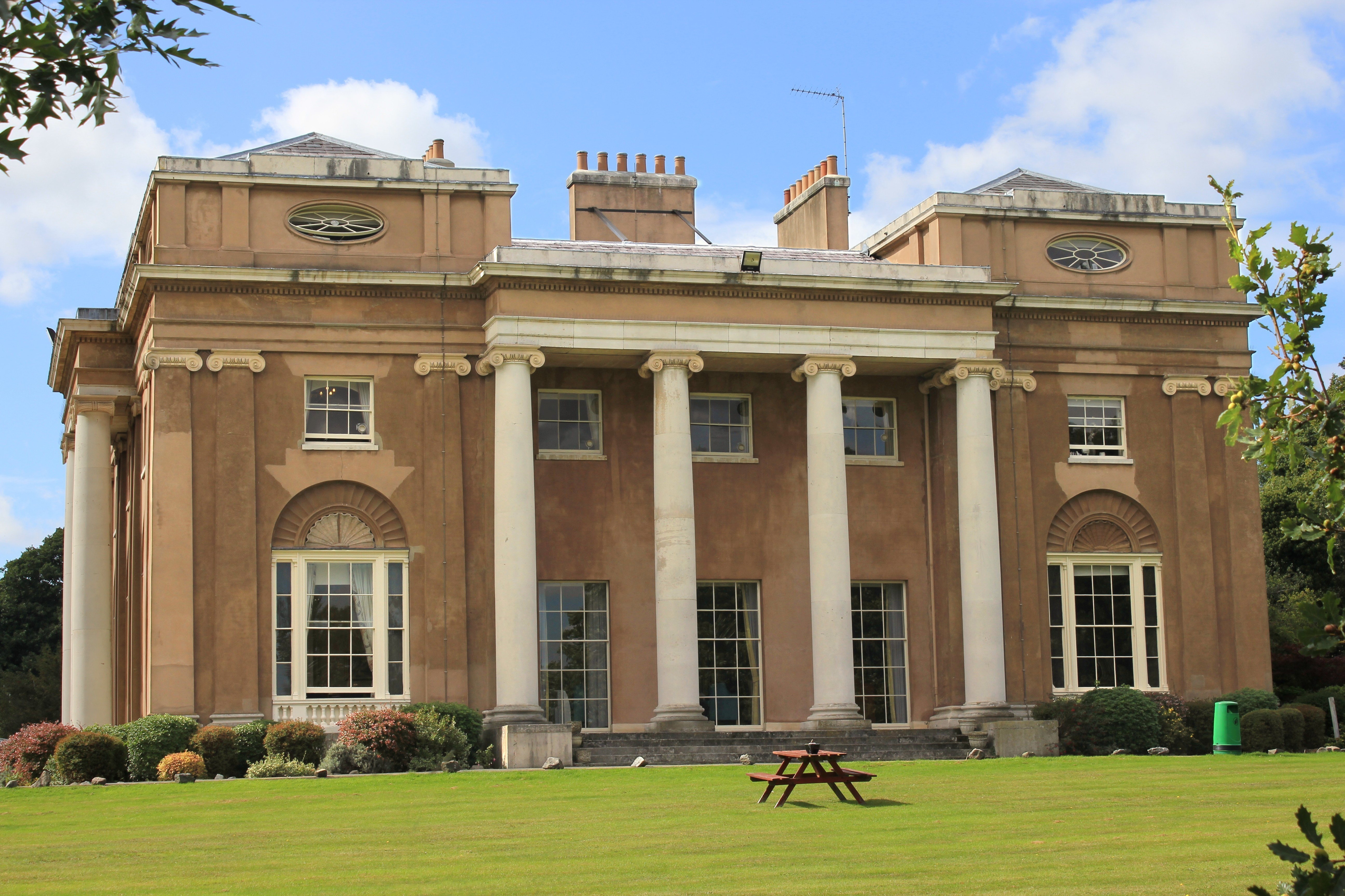 Grovelands House in Southgate N14. The house, built in 1797, was designed by John Nash in partnership with Humphry Repton who laid out the grounds. The building sits within Grovelands Park, and since 1985 has been owned and run by the Priory Hospital Group.